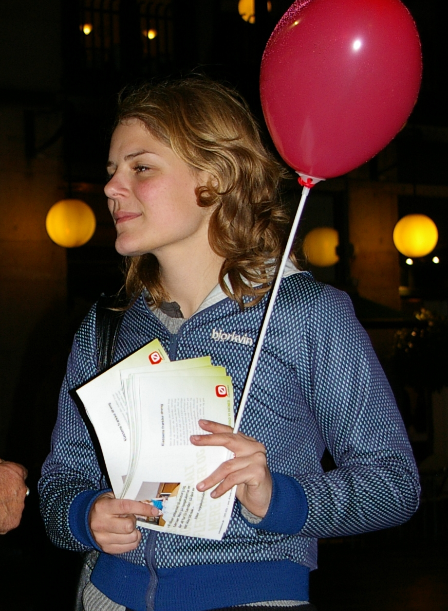 Member of the Danish parliament Johanne Schmidt-Nielsen at 'Love-In' action on Strøget in Copenhagen, protesting the so-called "24-year rule, during the campaign for the 2007 election.